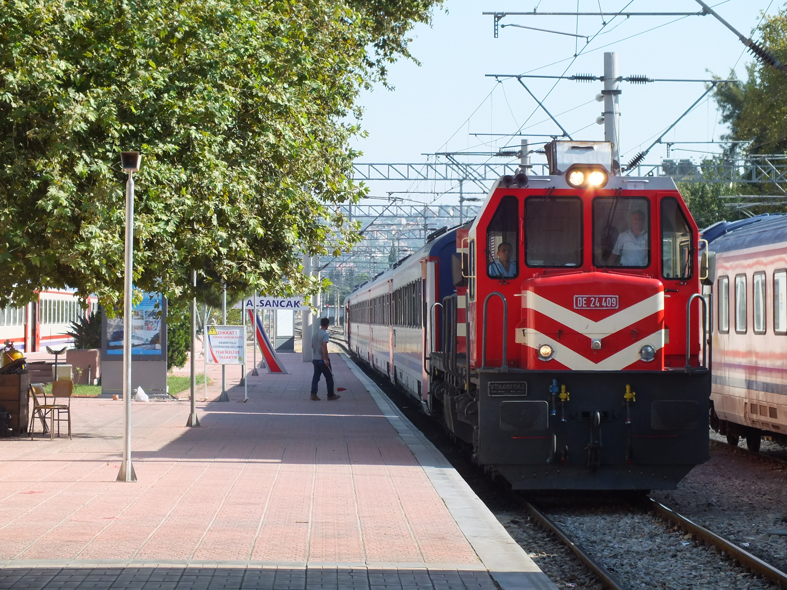 A DE24000 series locomotive pulls the 6th of September Express into Alsancak.